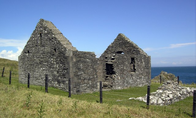 St Ninians Chapel St Ninians Chapel, Isle of Whithorn.